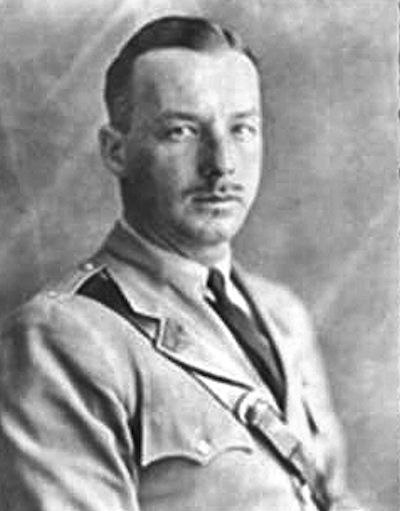 Lieutenant Francis B. Tyndall, born in Sewall's Point, in what is now Martin County, Florida . Tyndall Air Force Based is named for him.